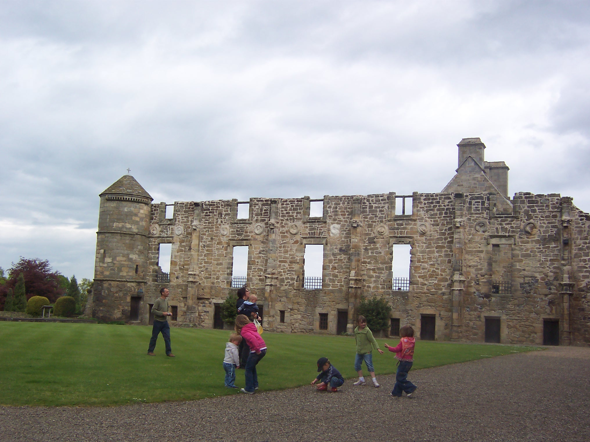 The Quadrangle of Falkland Palace.